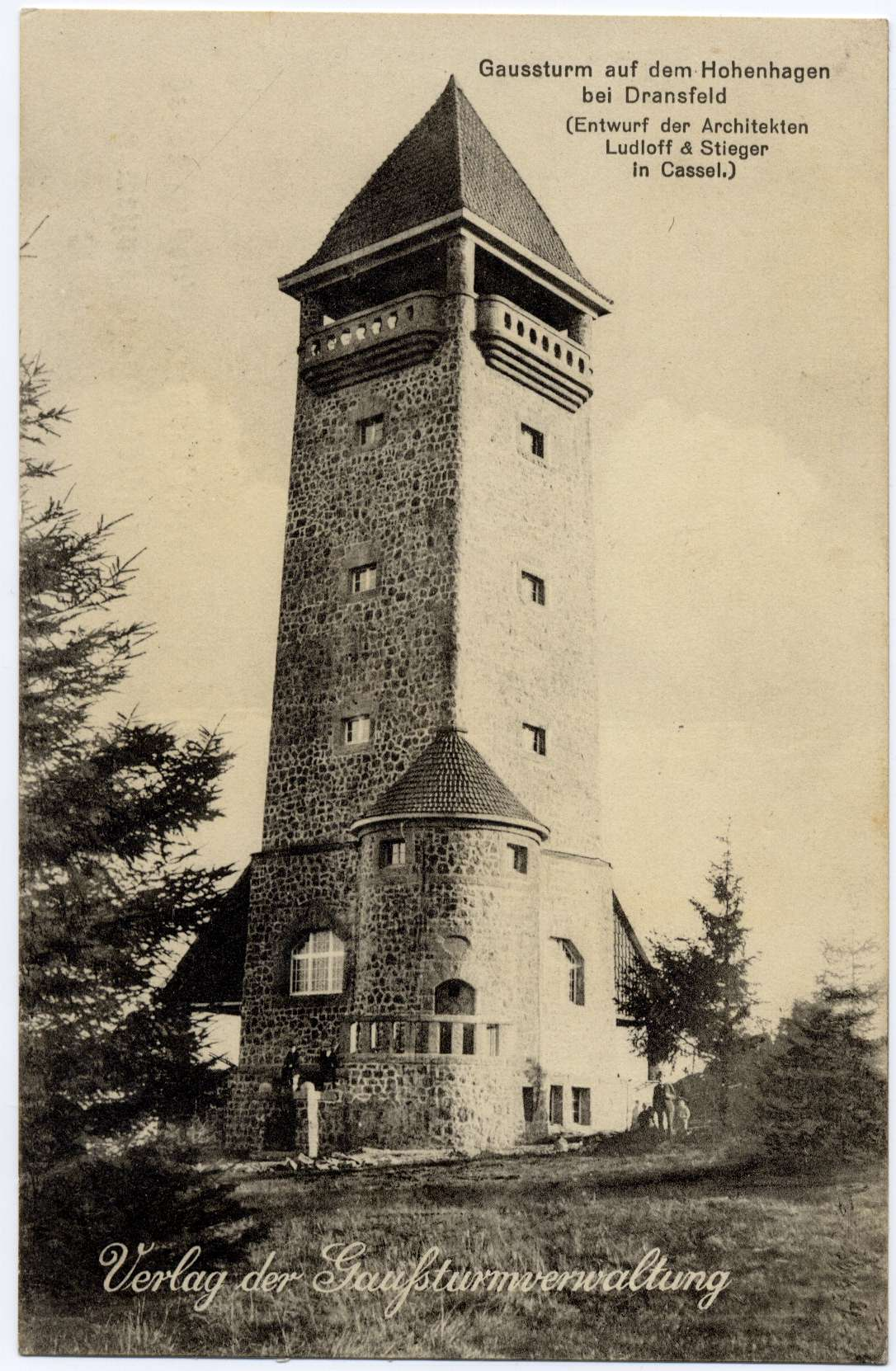 The Gauss tower at the Hoher Hagen near Dransfeld Göttingen was destroyed in 1963 by a close stone pit!!!